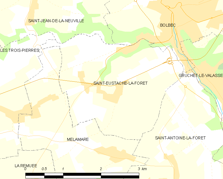 Map of French municipality Saint-Eustache-la-Forêt